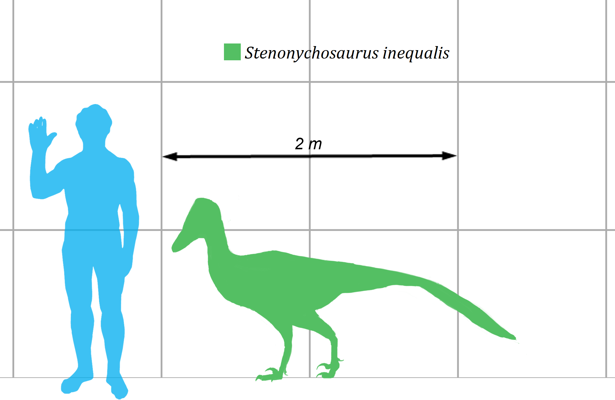 Scale diagram depicting the maniraptoran theropod Troodon inequalis (=Steonychosaurus inequalis) compared with a human.